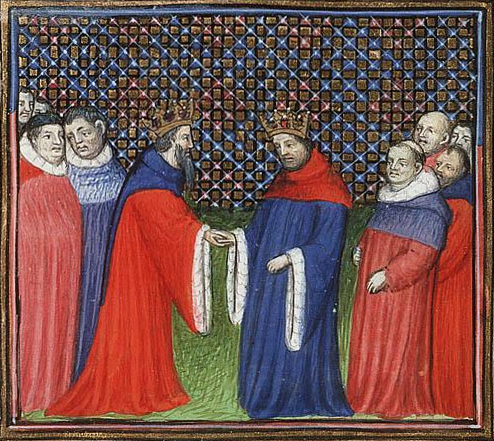 David Bruce, king of Scotland, acknowledges Edward III as his feudal lord Contents: Jean Froissart, Chroniques (Vol. I) Place of origin, date: Paris, Virgil Master (illuminator); c. 1410 Material: Vellum, ff. 382, 385x288 (243x187) mm, 42 lines, littera cursiva, Binding: 18th-century brown leather; gilt; with coat of arms of Stadholder William V Decoration: 1 two-column miniature (170x180 mm); 29 column miniatures (115/65x95/80 mm); 1 historiated initial (45x50 mm); decorated initials with border decoration (ff. 1r, 24r, 36r, 62r, 74v, etc.) Provenance: Louis de Luxemburg, conn‚table de France (d. 1475; signature, erased); by descent to his granddaughter Françoise de Luxembourg and her husband Philip of Cleves (d. 1528; coat of arms with label, over erasure; signature); purchased in 1531 from Philip's estate by HenriIII, Count of Nassau (d. 1538); by descent to the Princes of Orange-Nassau, the later Stadholders, at The Hague; carried off in 1795 to Paris by the French and restituted to the Koninklijke Bibliotheek in 1816